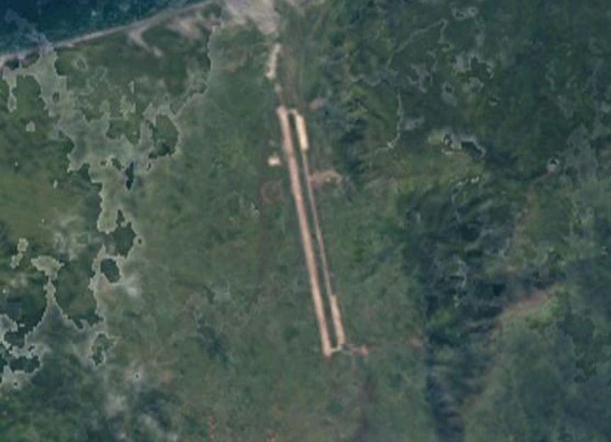 Sopochnyy Southwest, 1984, Landsat image.